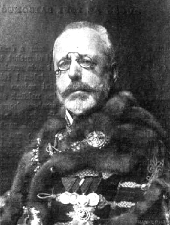 Portrait of István Burián